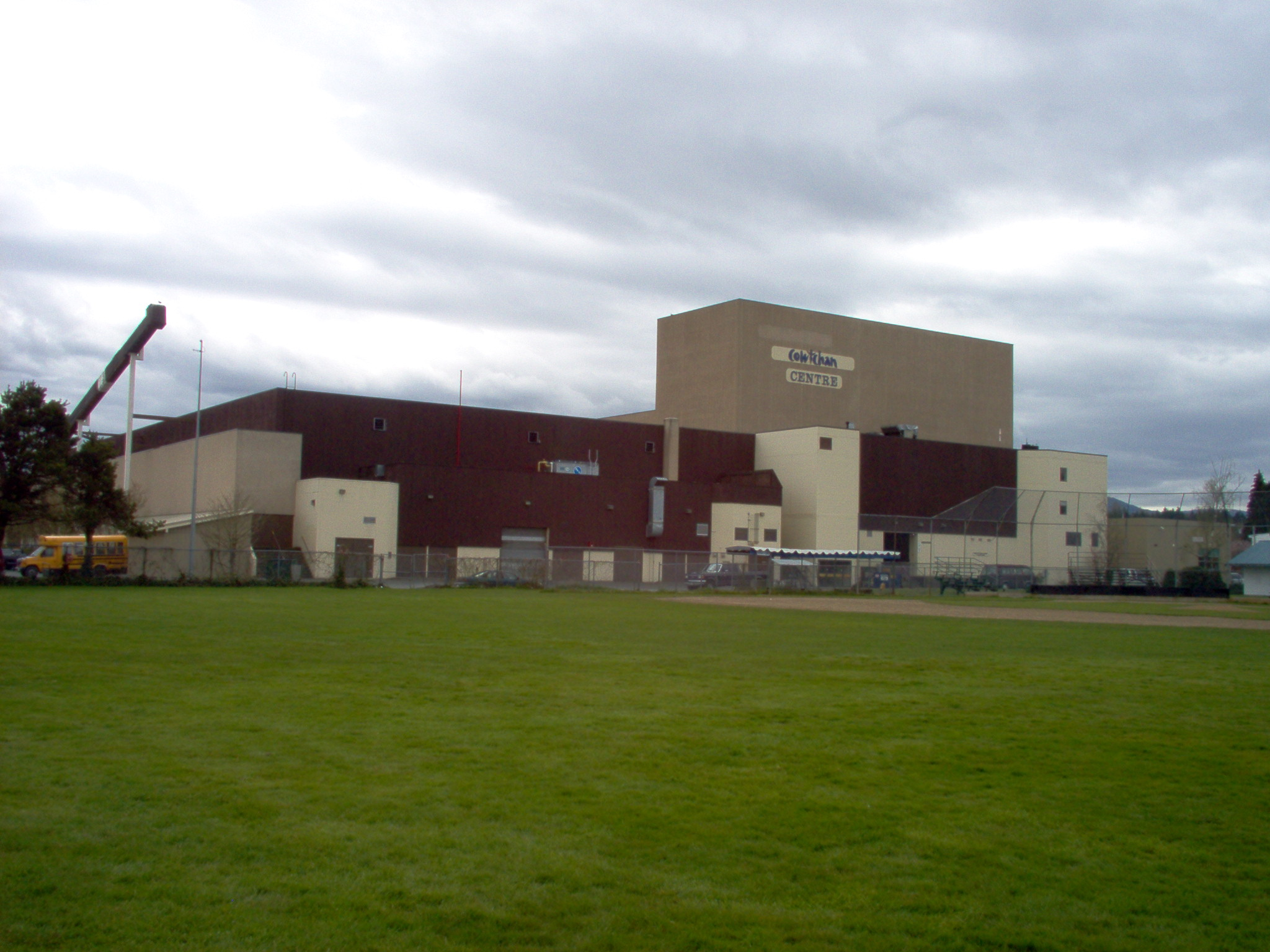 Exterior shot of the Cowichan Community Centre, now known as "Island Savings Centre".